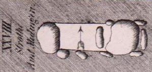 Megalithic tomb Strothe 1, Sprockhoff-No 770